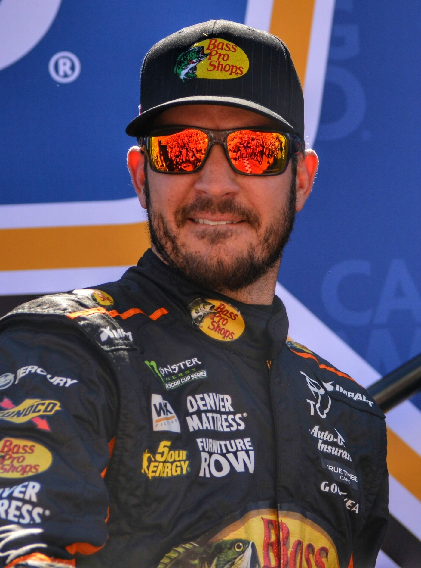 Martin Truex Jr. at Phoenix International Raceway during the 2017 Camping World 500